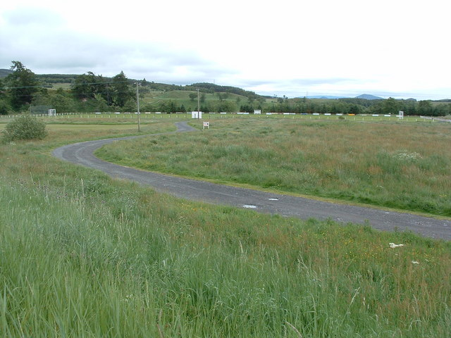 Kingussie shinty stadium